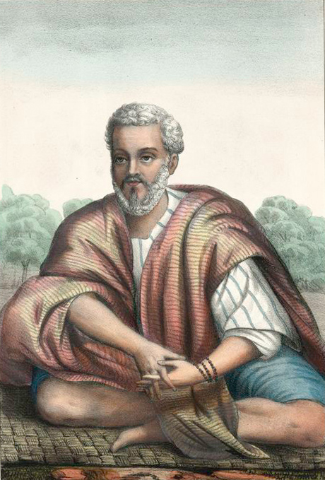 Moor prince, Trarzas